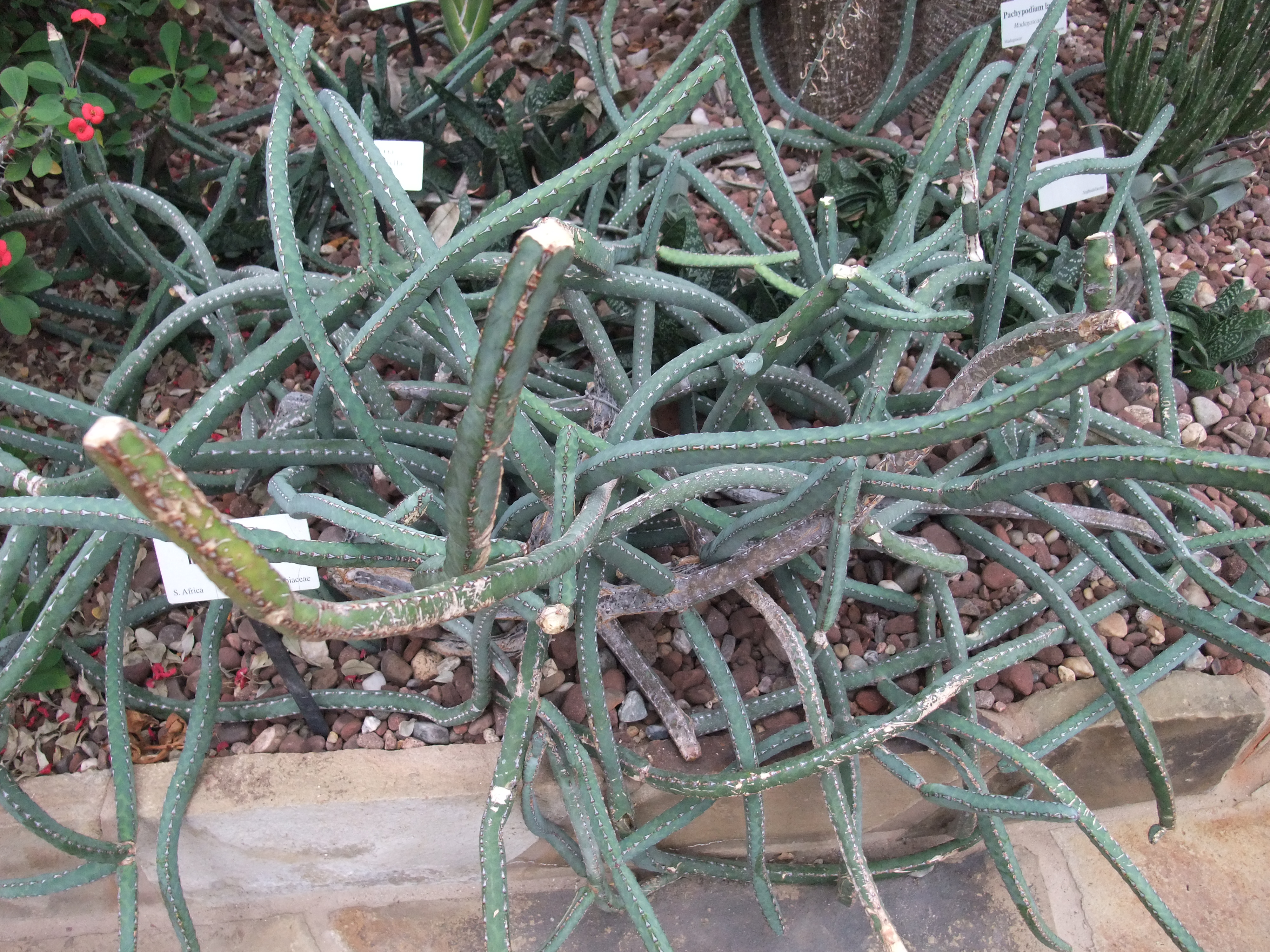 A photograph of Euphorbia heterochroma.